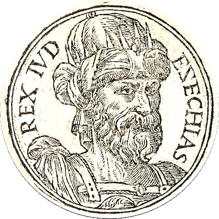 Ezechias-Hezekiah